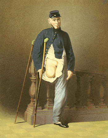 Private Lewis Francis, Co. I, 14th New York Militia, was wounded July 21, 1861, at the first battle of Bull Run by a bayonet to the knee. He was stabbed at least 14 more times. He died May 31, 1874.(original painting by Hermann Faber; this is a lithograph made from it)(Ref:CWMI 012)